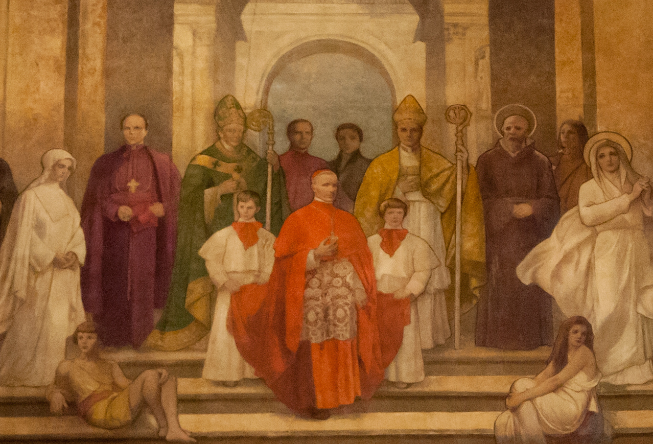 This is a cropped image of the lunette mural above the doors of St. Matthew's Cathedral and Rectory. The mural depicts (right to left): St. Rose of Lima, Blessed Kateri Tekakwitha, St. Isaac Jogues, Archbishop Michael Curley, William Matthews, Cardinal James Gibbons with two servers (William Sands and Patrick Hannan), Monsignor Thomas Lee, Archbishop John Carroll, Bishop John Neumann, and St. Elizabeth Ann Seton.